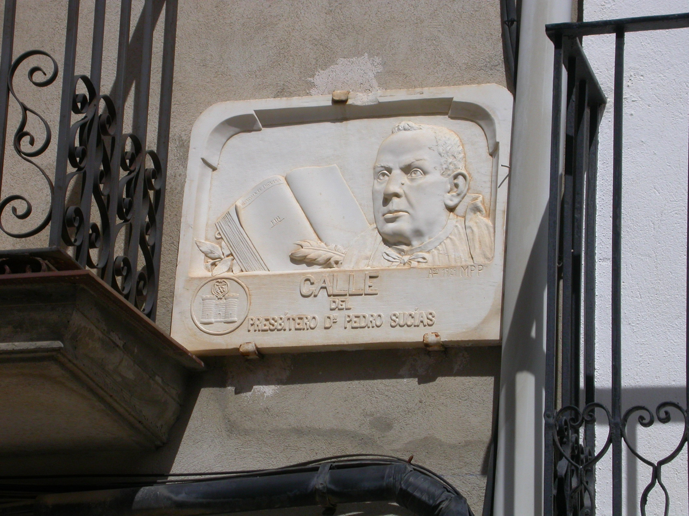 Placa dedicada a Pedro Suciás en la calle que lleva su nombre en Enguera (valencia). Pueblo del que era natural.